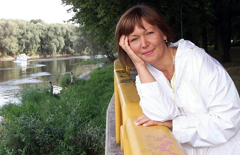 Estonian politician and lawyer Heljo Pikhof.